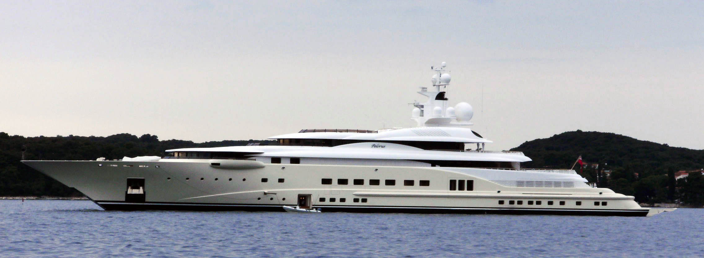 Pelorus harboring in Rovinj, Croatia